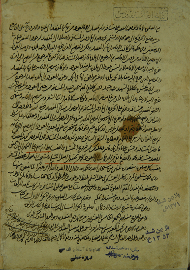 Manuscript by Shahid Sani